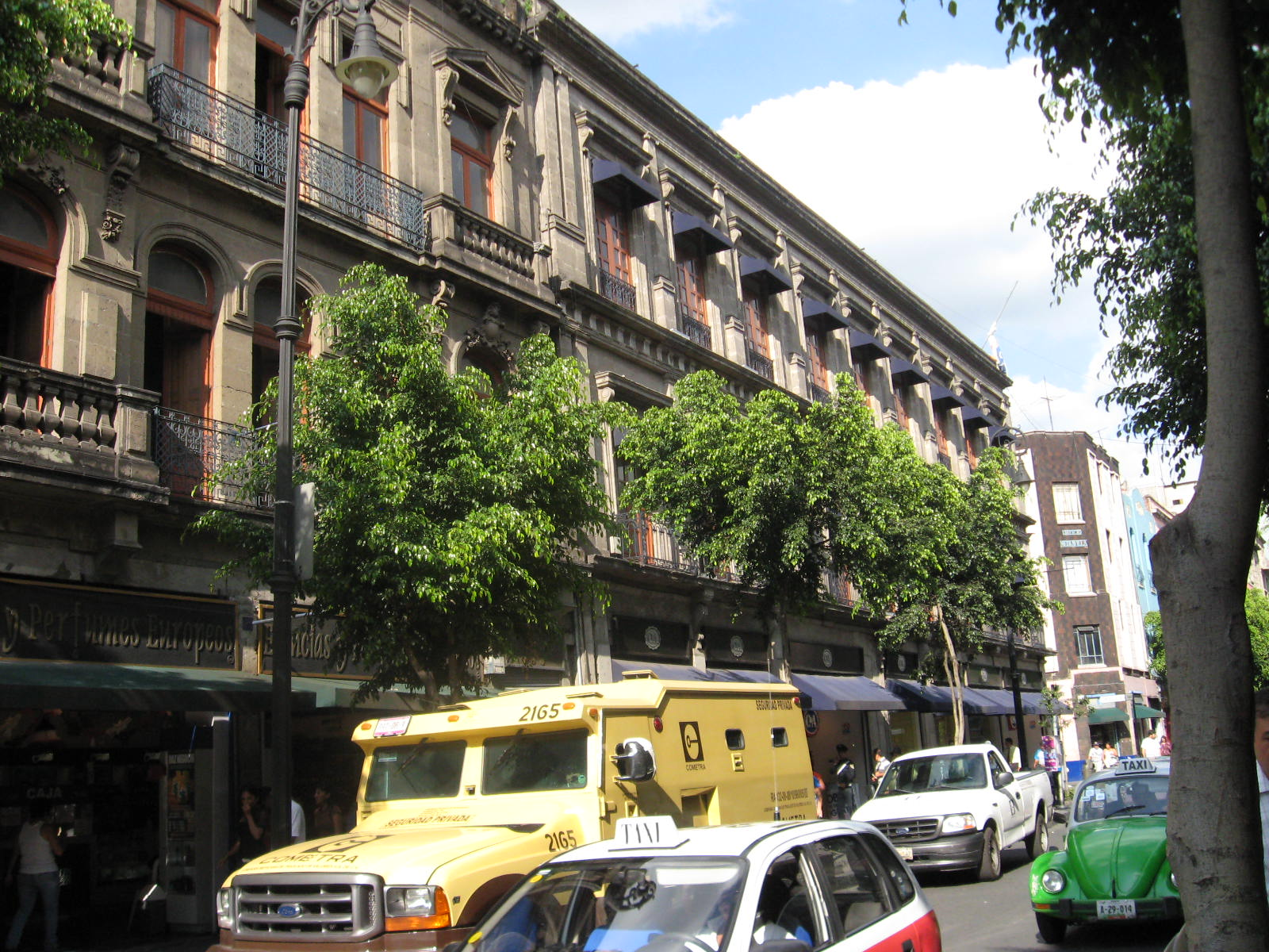 Building Santa Clara on the corner of Tacuba and Isabel la Catolica in the Centro of Mexico City